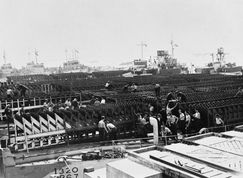 British landing craft support (rocket) being loaded with projectiles at Southampton.